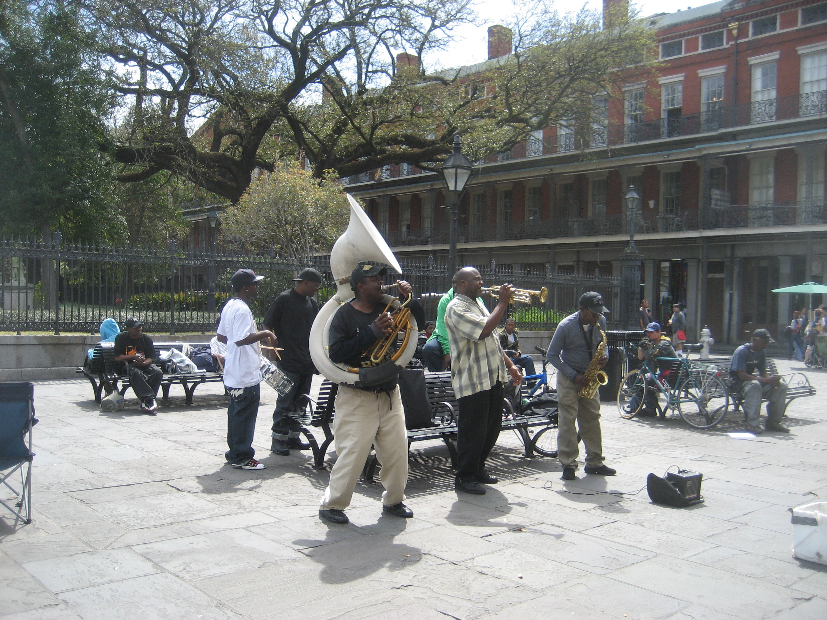 Busking jazz group, Jackson Square, New Orleans.